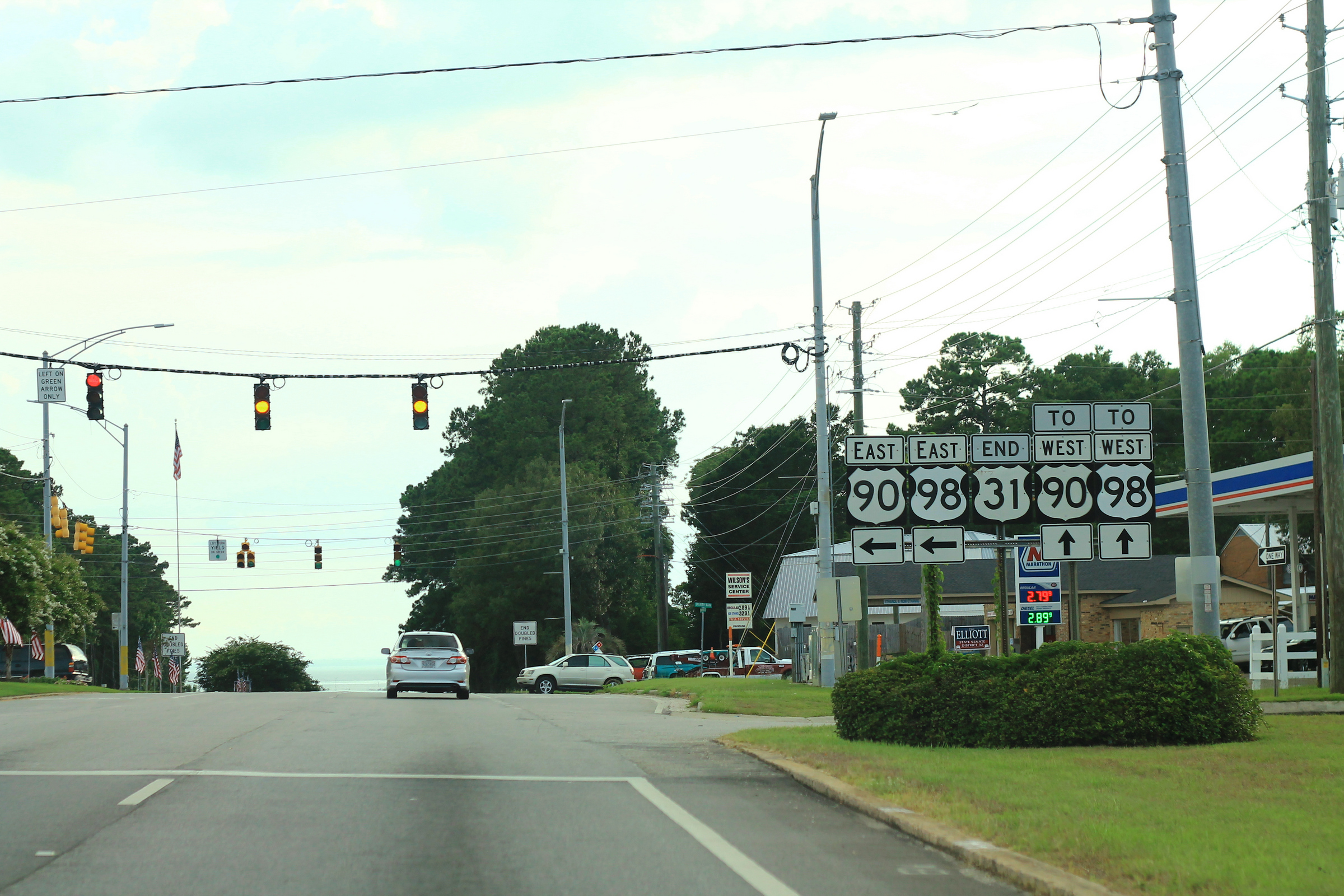 US31 South End - US90 US98 East West Signs - Spanish Fort